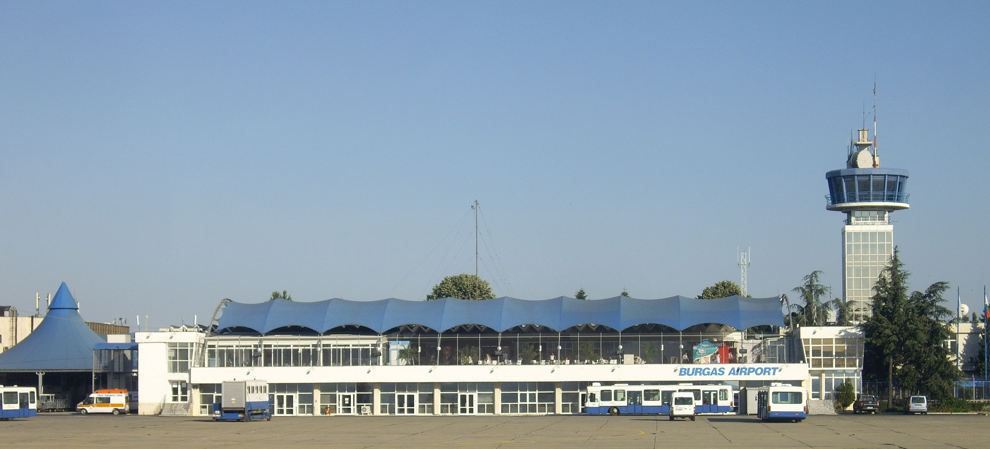 Bulgaria,Airport Burgas, Terminal Departure